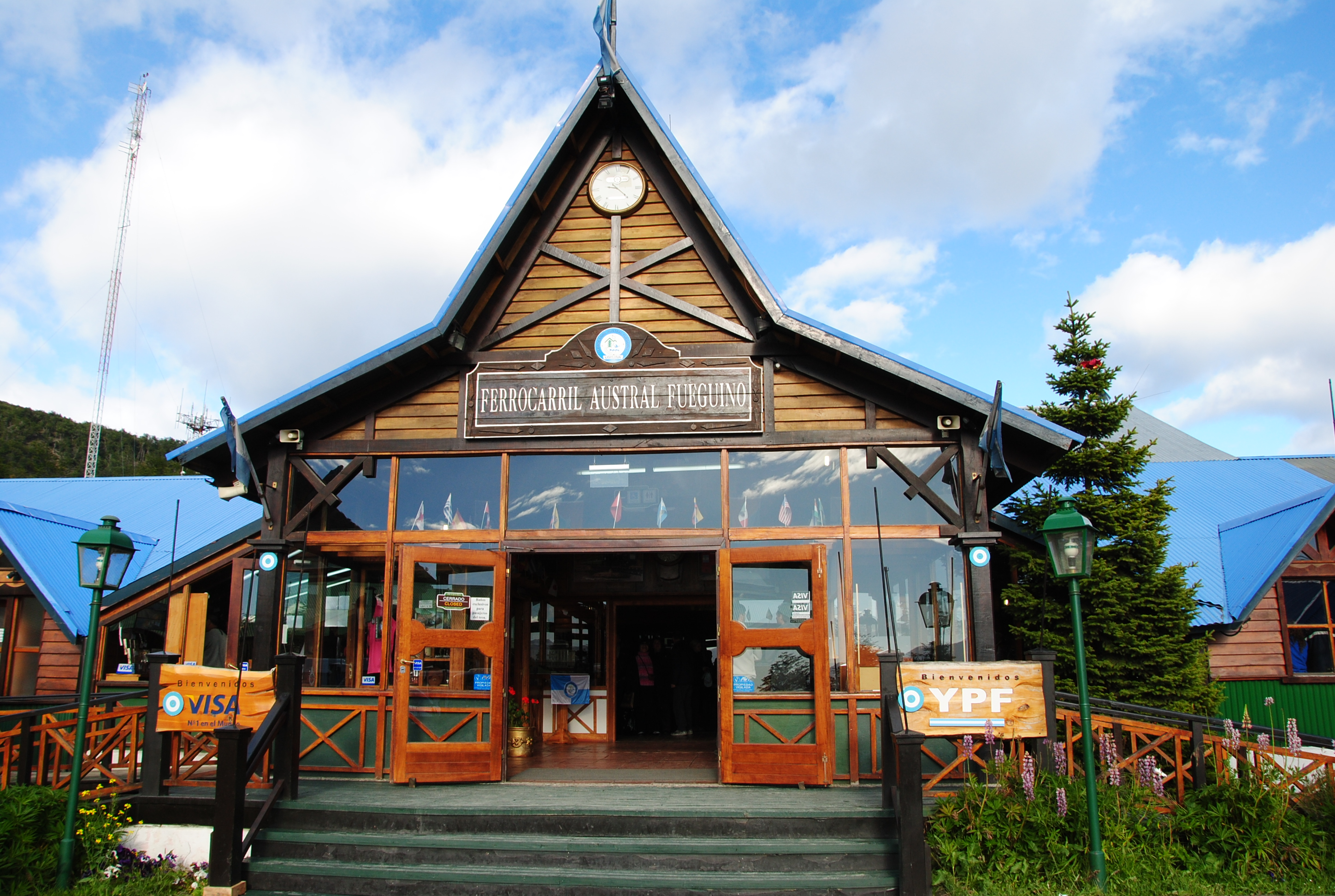 End of the World Station. Ushuaia, Tierra del Fuego